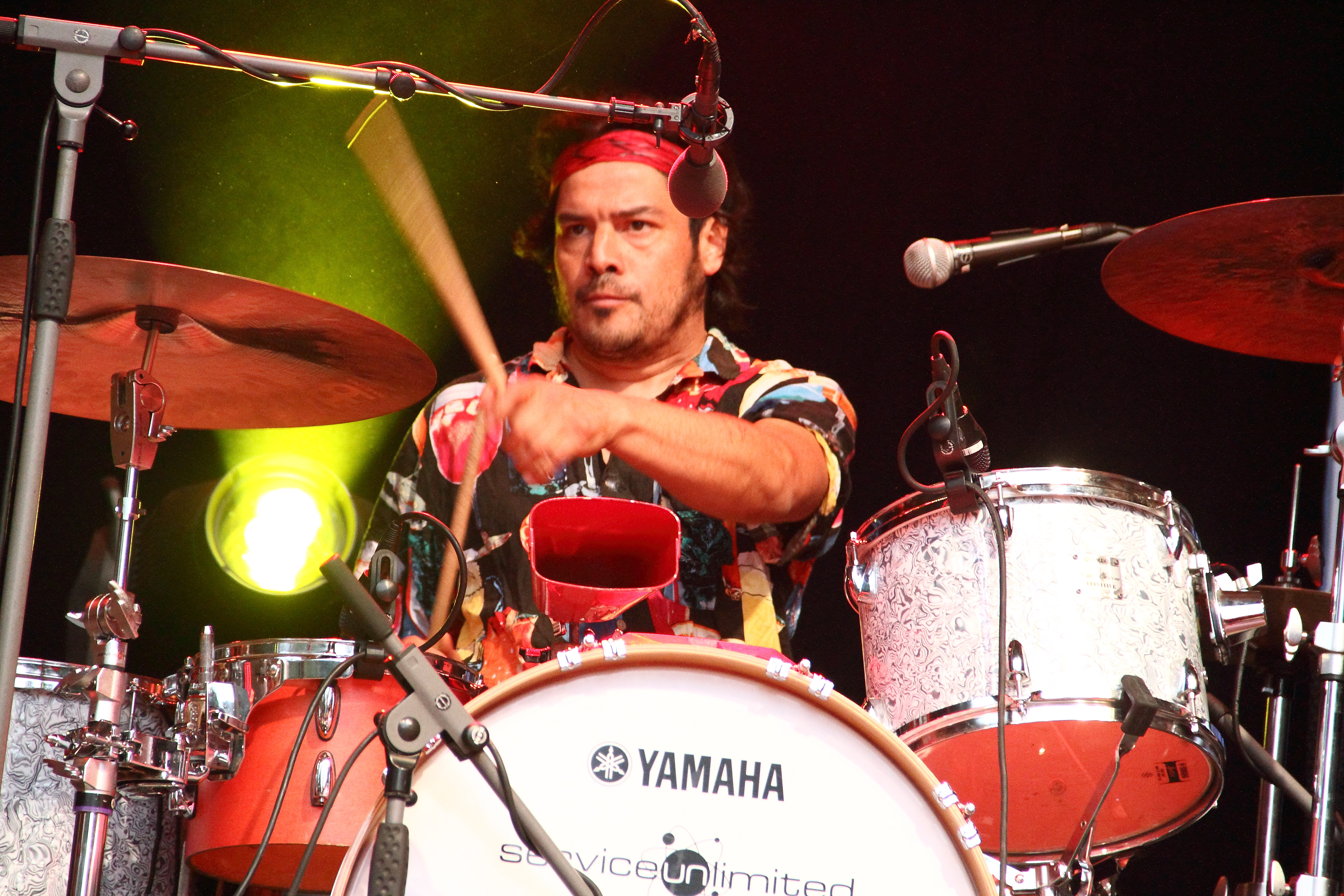 Chico Trujillo at Rudolstadt-Festival 2018.